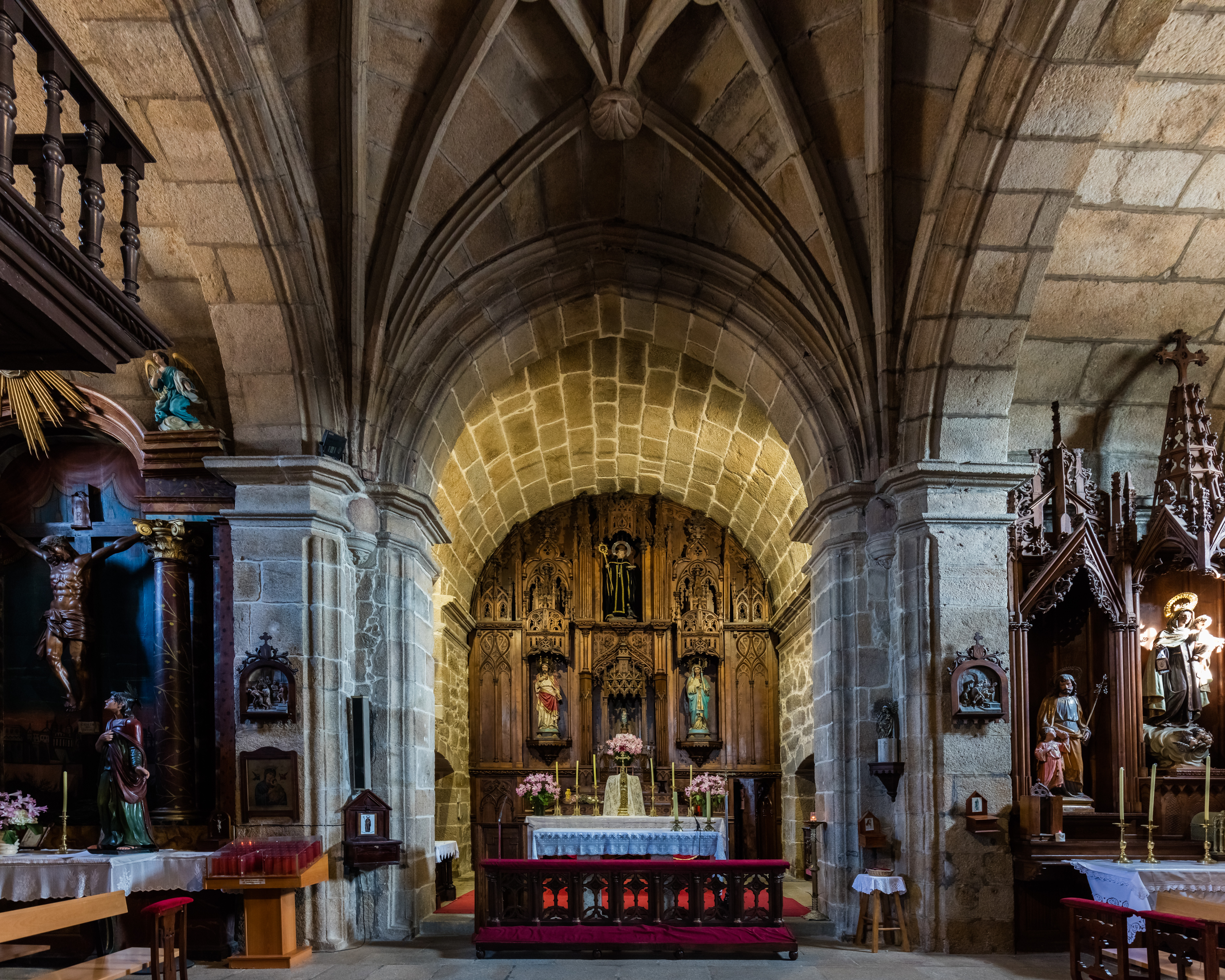 Church of St Benito, Cambados, Pontevedra, Spain